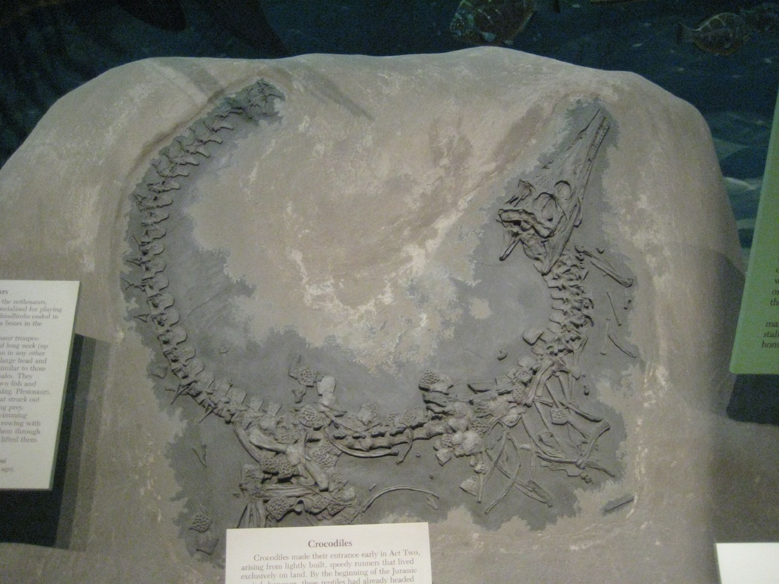 Steneosaurus bollensis 195 - 180 million years ago, Early Jurassic